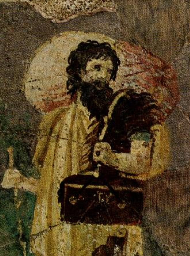 Detail from a wall painting depicting the Cynic philosopher Crates of Thebes. From the garden of the Villa Farnesina, Museo delle Terme, Rome